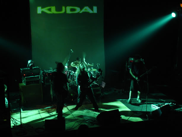 KUDAI, Spanish (Basque Country) thrash metal and industrial metal group in concert (2005).